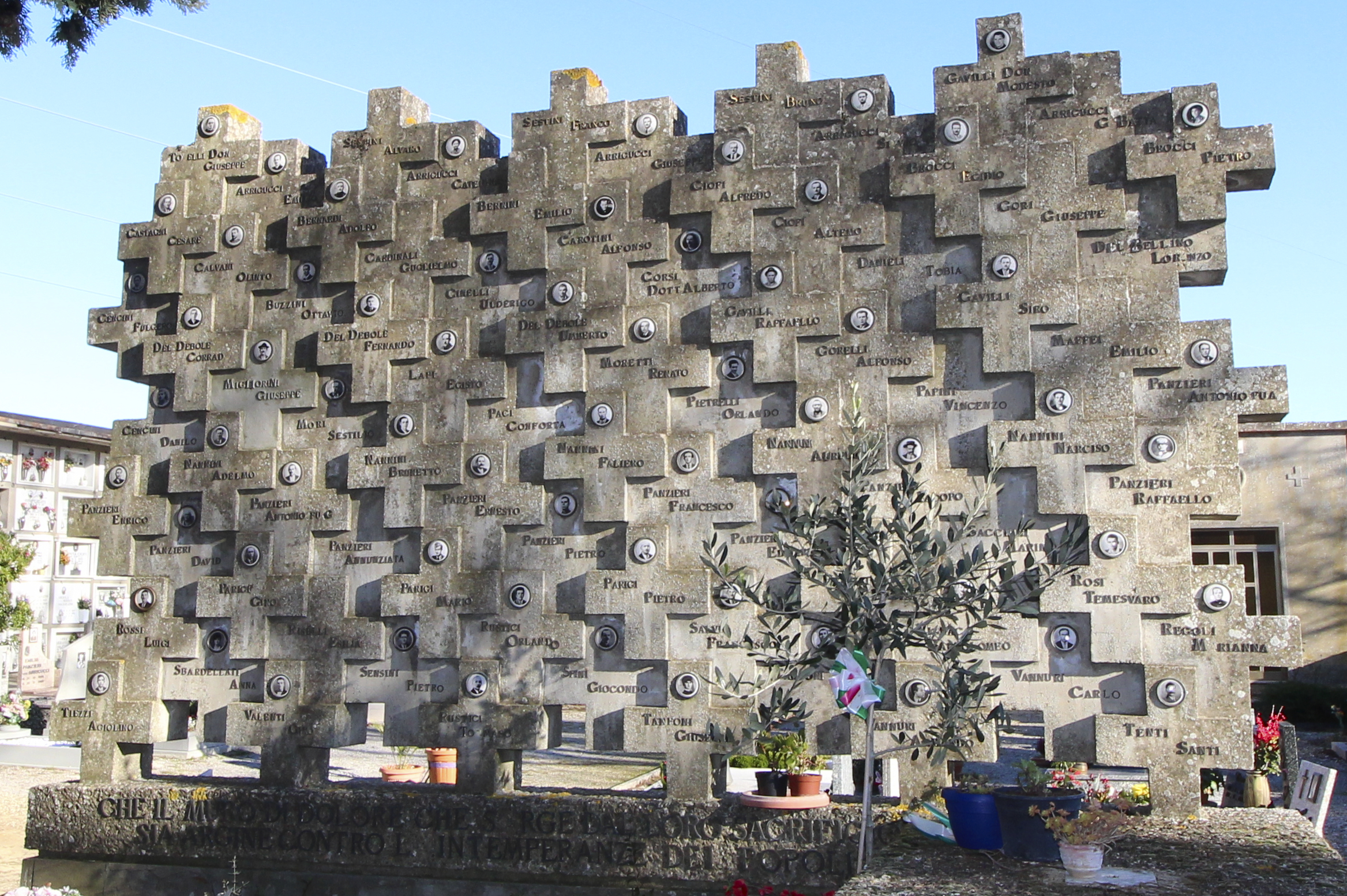 World War II memorial on the cemetery in San Pancrazio, hamlet of Bucine, Province of Arezzo, Tuscany, Italy